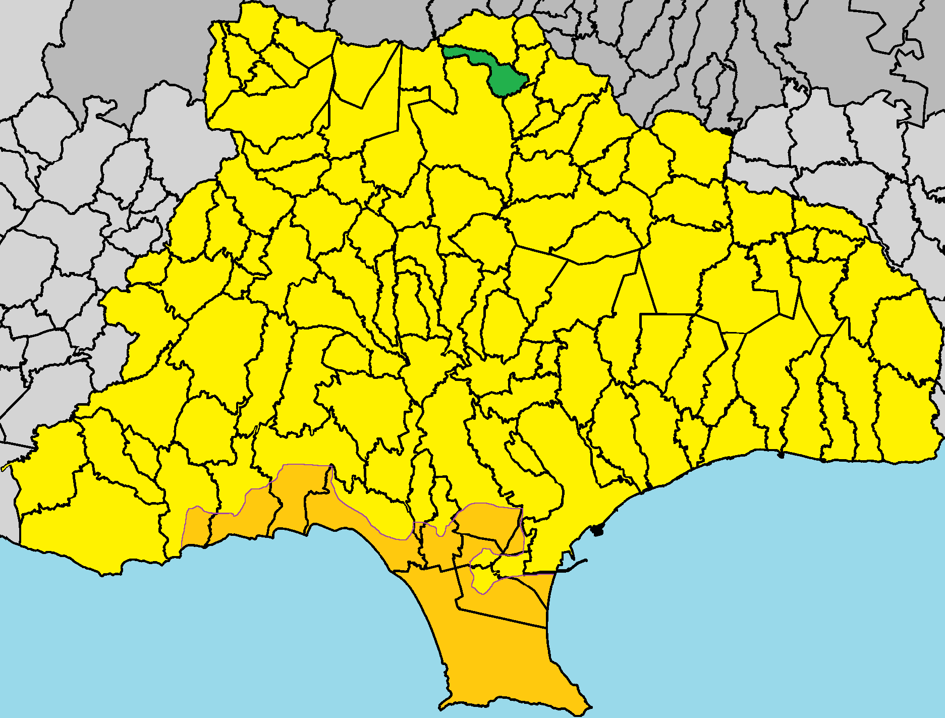 Dymes in Limassol District.